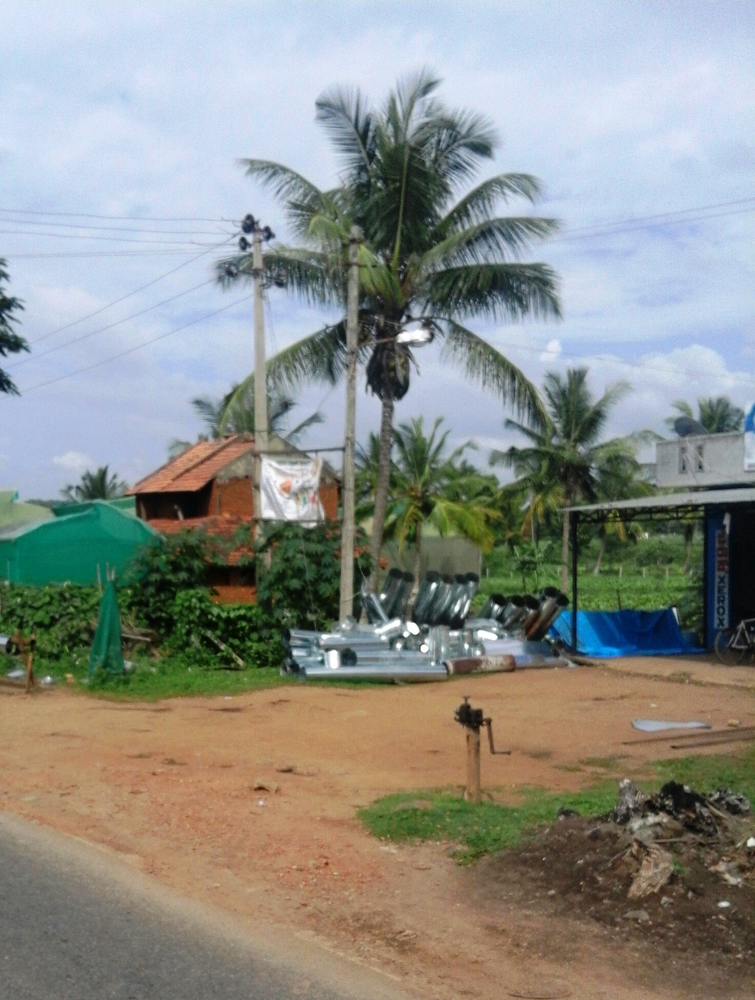 Kodagu district, Karnataka state, India